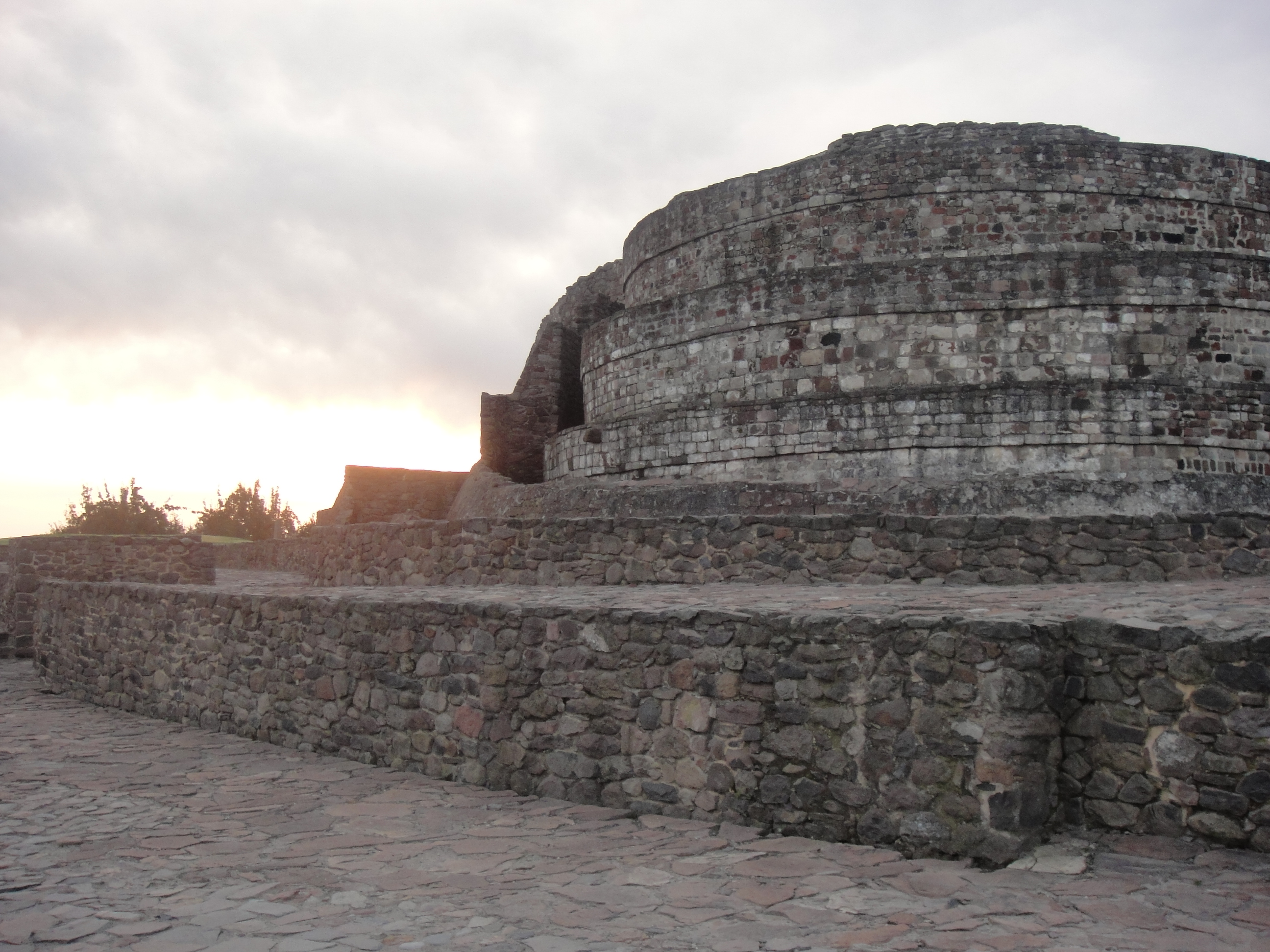 Sun raising at Ehécatl's Temple